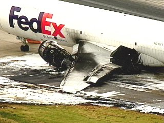 Crash of FedEx Express Flight 630 by the NTSB. Landing gear failed causing the McDonnell Douglas MD-10-10F registration N391FE to crash. No fatalities